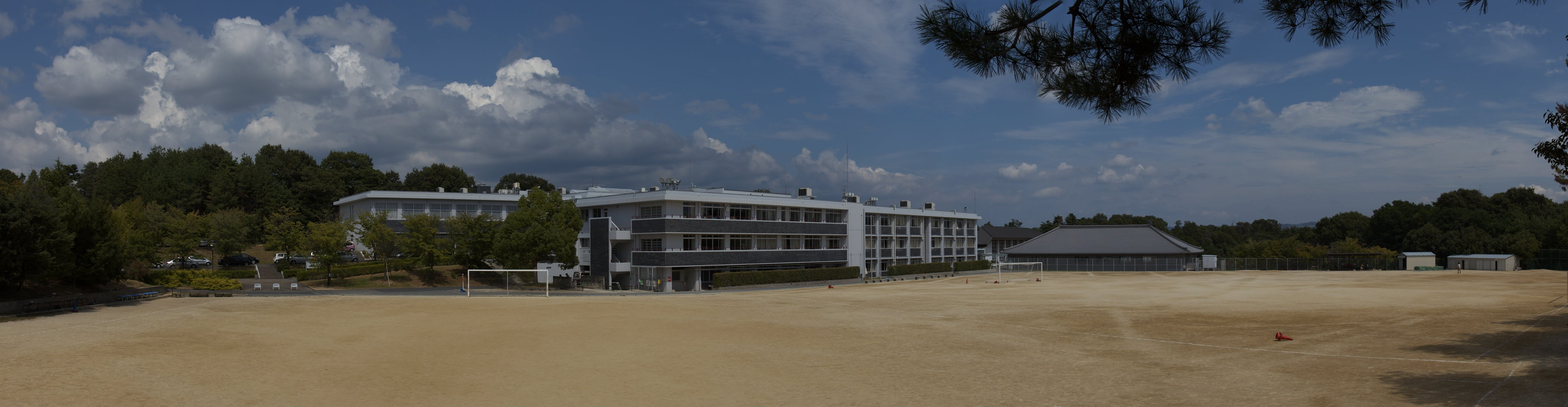 Todaiji Gakuen Highschool, Juniorhighschool. Panorama image created with Hug-in